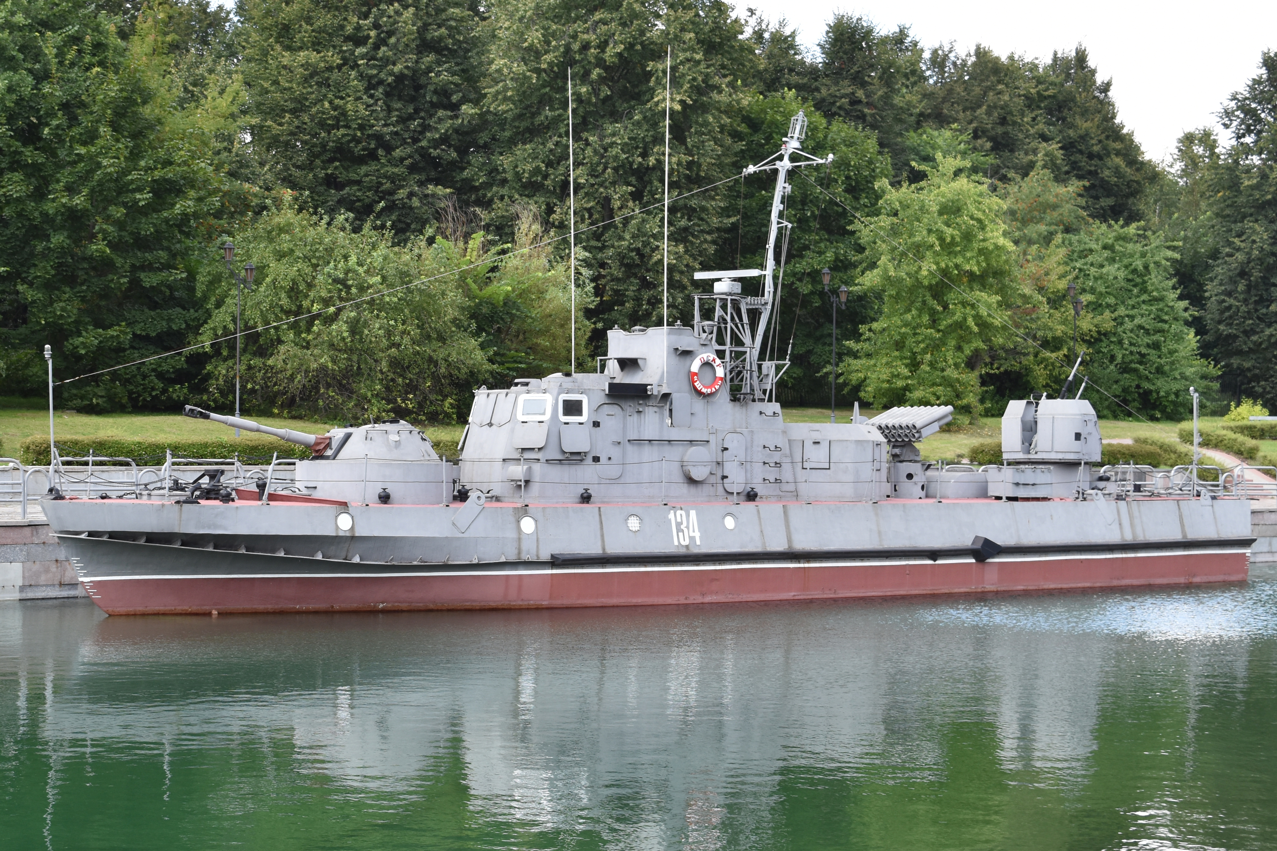 Soviet Cold war era Armoured Artillery Gunboat / Patrol Boat Built:- 1967 to 1974 Total production:- 118 NATO ‘Shmel’ class On display in ‘Victory Park’, Museum of the Great Patriotic War, Poklonnaya Hill, Moscow, Russia. 26th August 2017